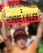 Protests against same-sex marriage in Spain (face blurred to respect personality rights in image)